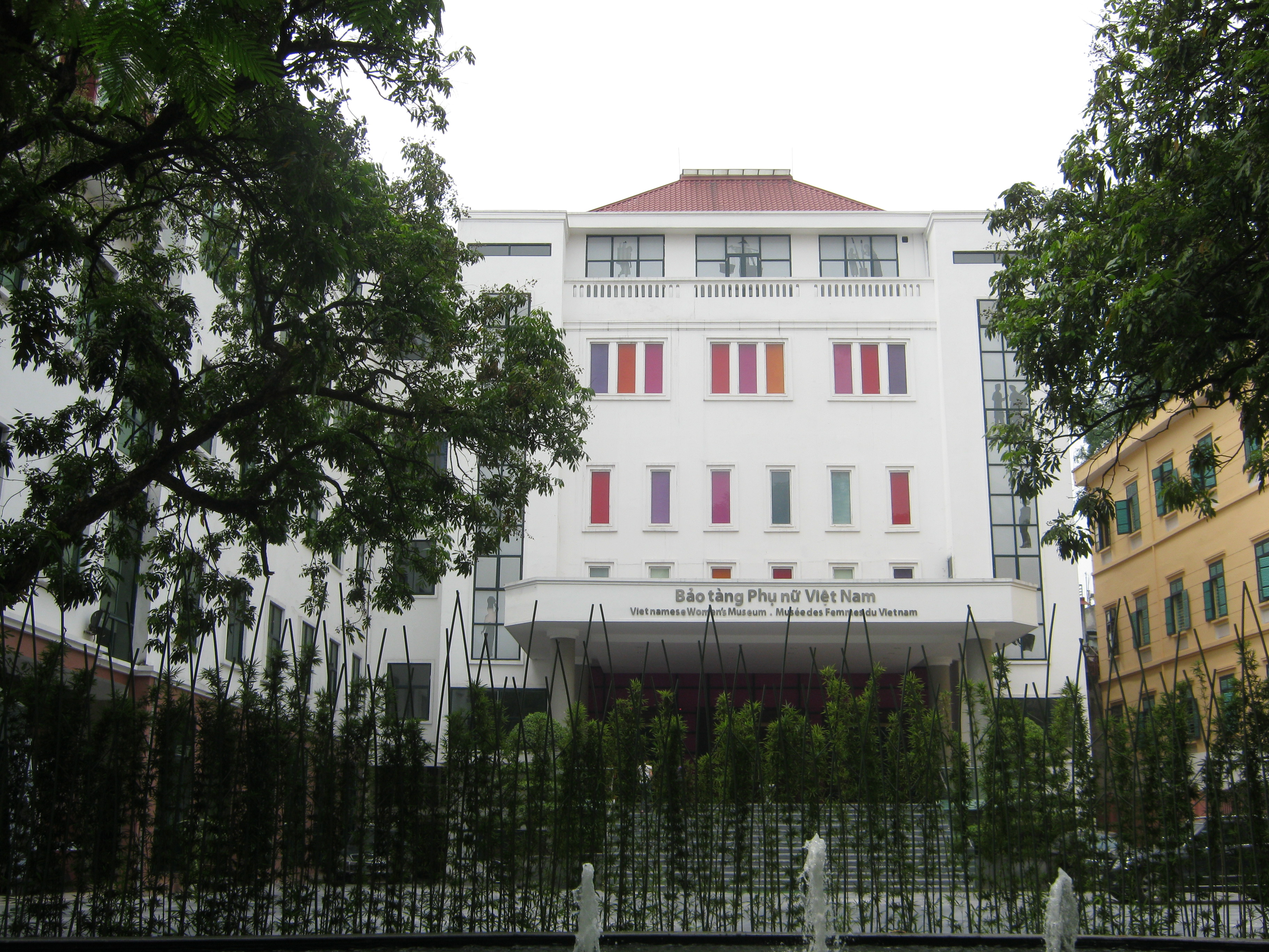 Vietnamese Women's Museum frontage